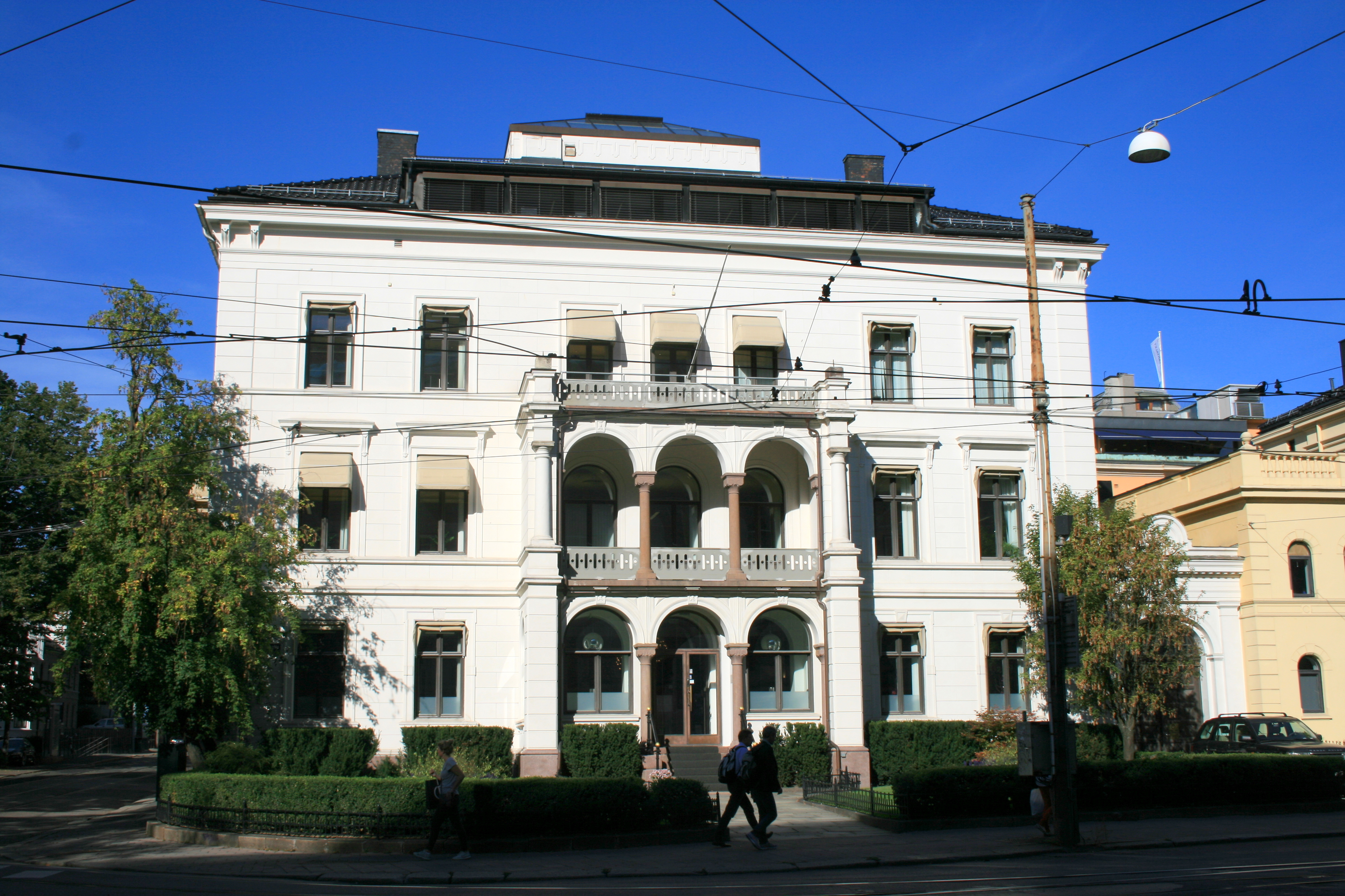 Henrik Ibsens gate 53 in Oslo, Norske Liv-gården, architect Thøger Binneballe, from 1867.